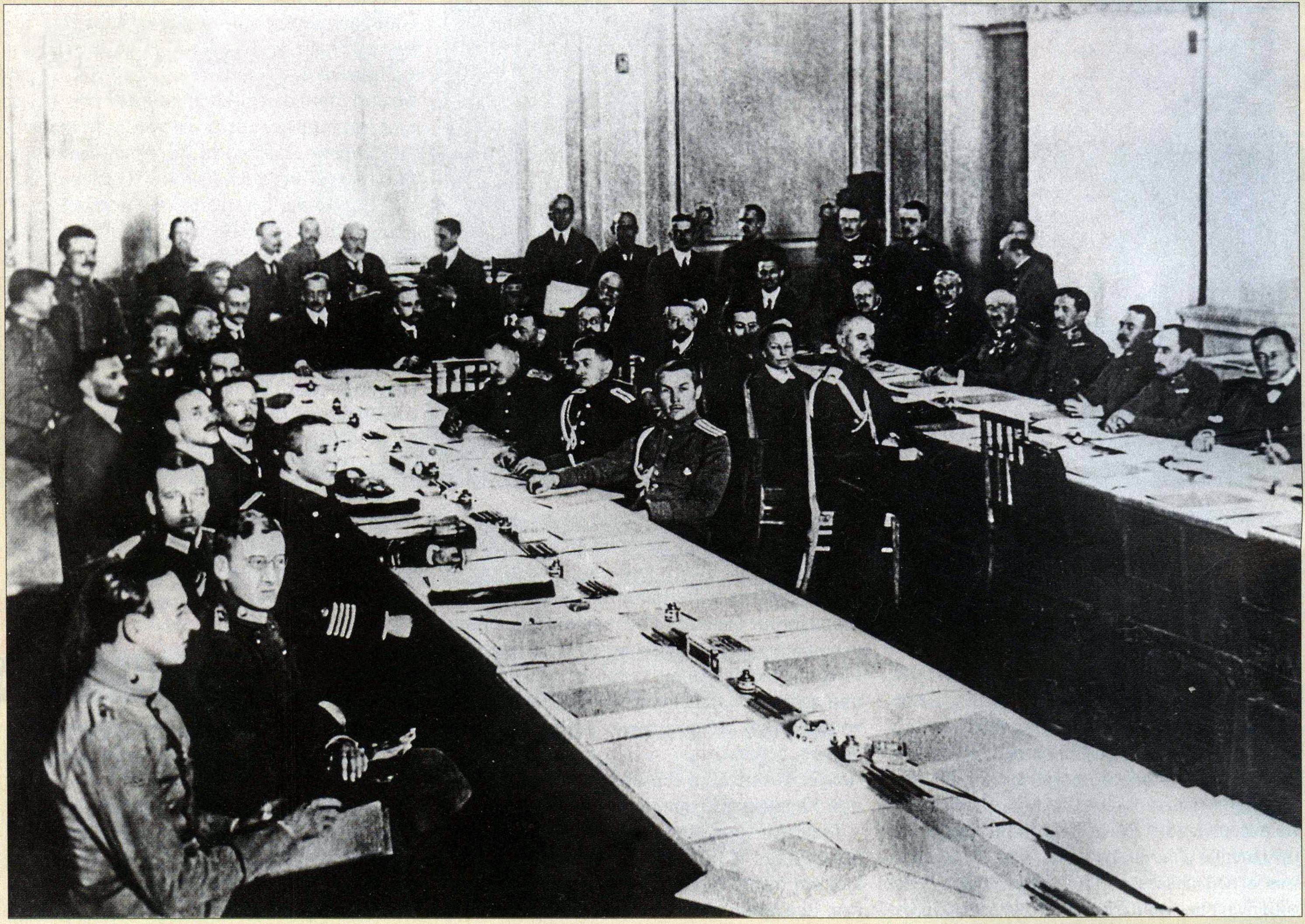 Treaty of Brest. 1918